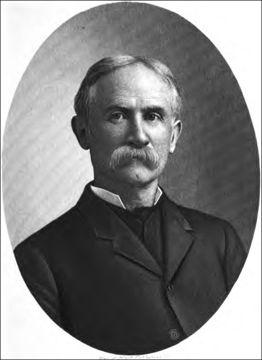 Photograph of Samuel C. Graham